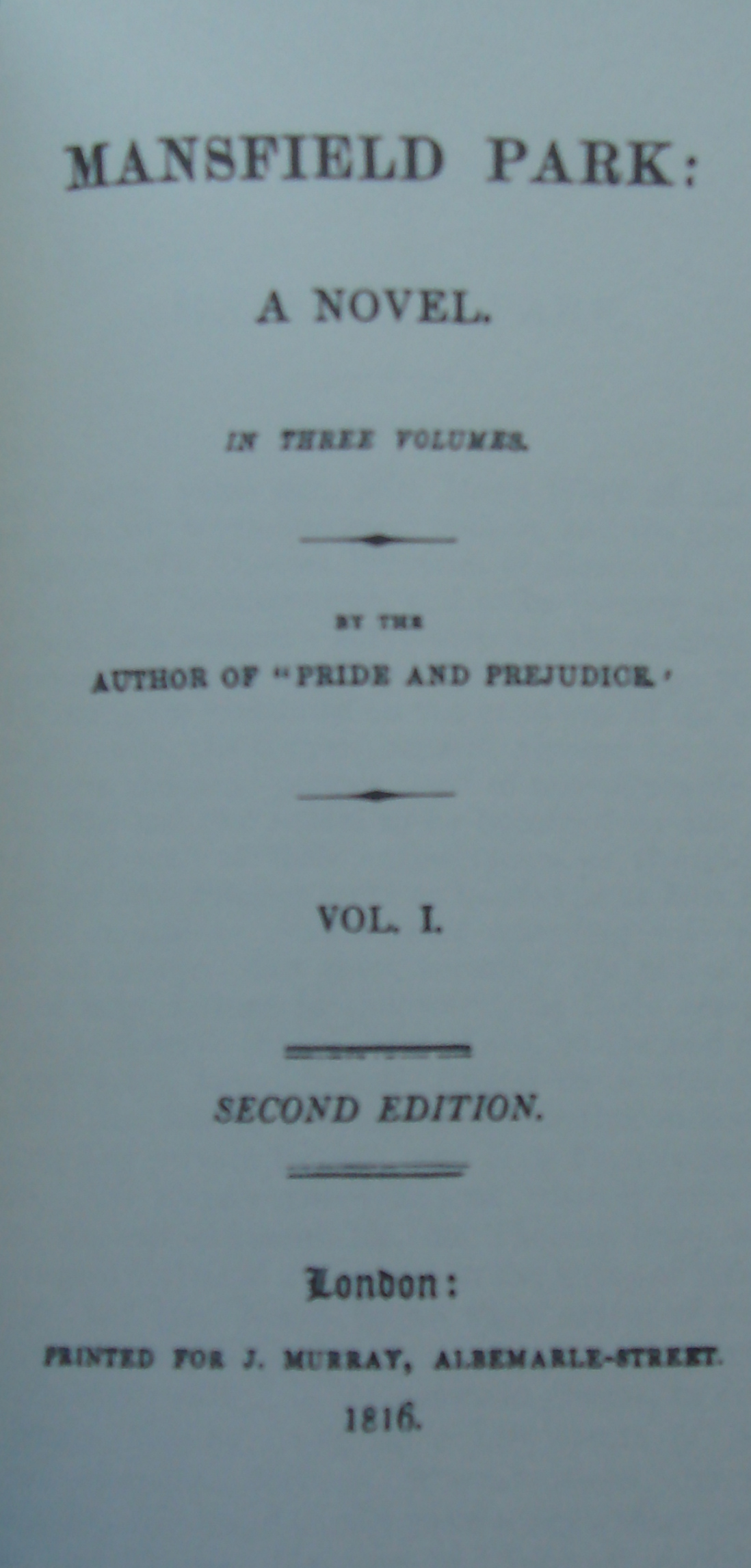 Title page of second edition of Mansfield Park (1816)